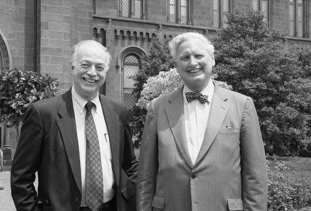 Ninth Secretary Robert McCormick Adams (1984-1994) with Secretary-Elect Ira Michael Heyman (1994-1999) in the Enid A. Haupt Garden after the May 25, 1994 press conference in the Smithsonian Institution Building announcing the "changing of the guard." Heyman came to the Smithsonian Institution from the Department of the Interior where he served as counselor to Bruce Babbitt Secretary of the Interior and deputy assistant secretary for policy. From 1980 to 1990 Heyman was chancellor of the University of California at Berkeley and is also former Smithsonian Institution regent.